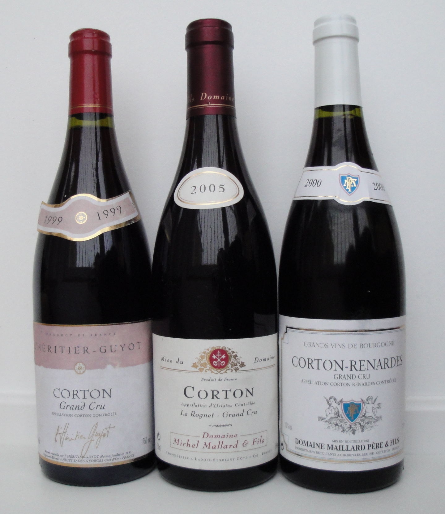 Three bottles of red Corton wine from different producers and different vintages.